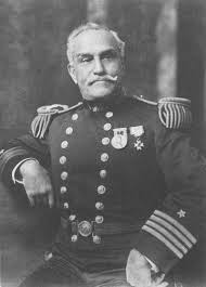 US Navy Captain George Colvocoresses (1816-1872). Born on Greek island of Chios